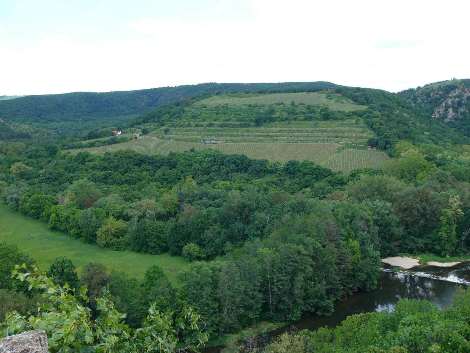 Winery Šobes in Podyjí National Park in Czech Republic